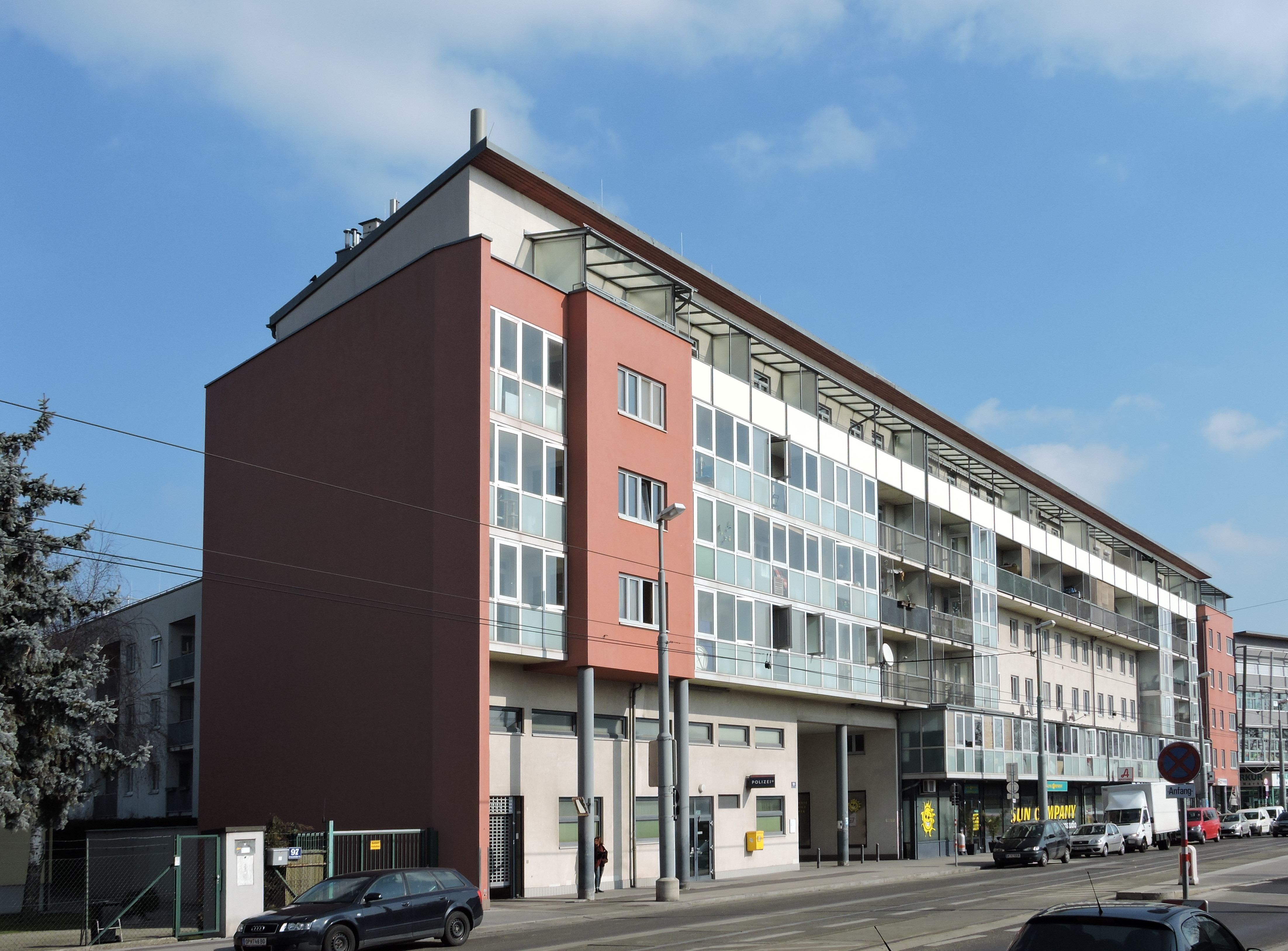 Residential building in Vienna 21., Donaustädterstrasse 99 - "Margarete-Schütte-Lihotzky-Hof"